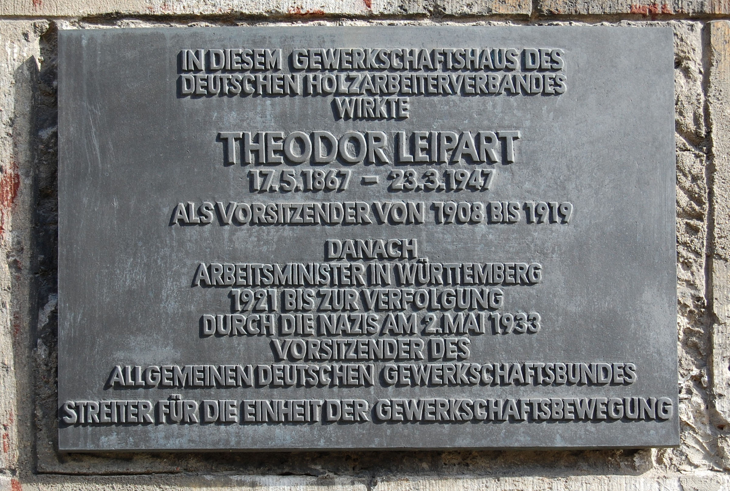 Plate in Honour for Theodor Leipart